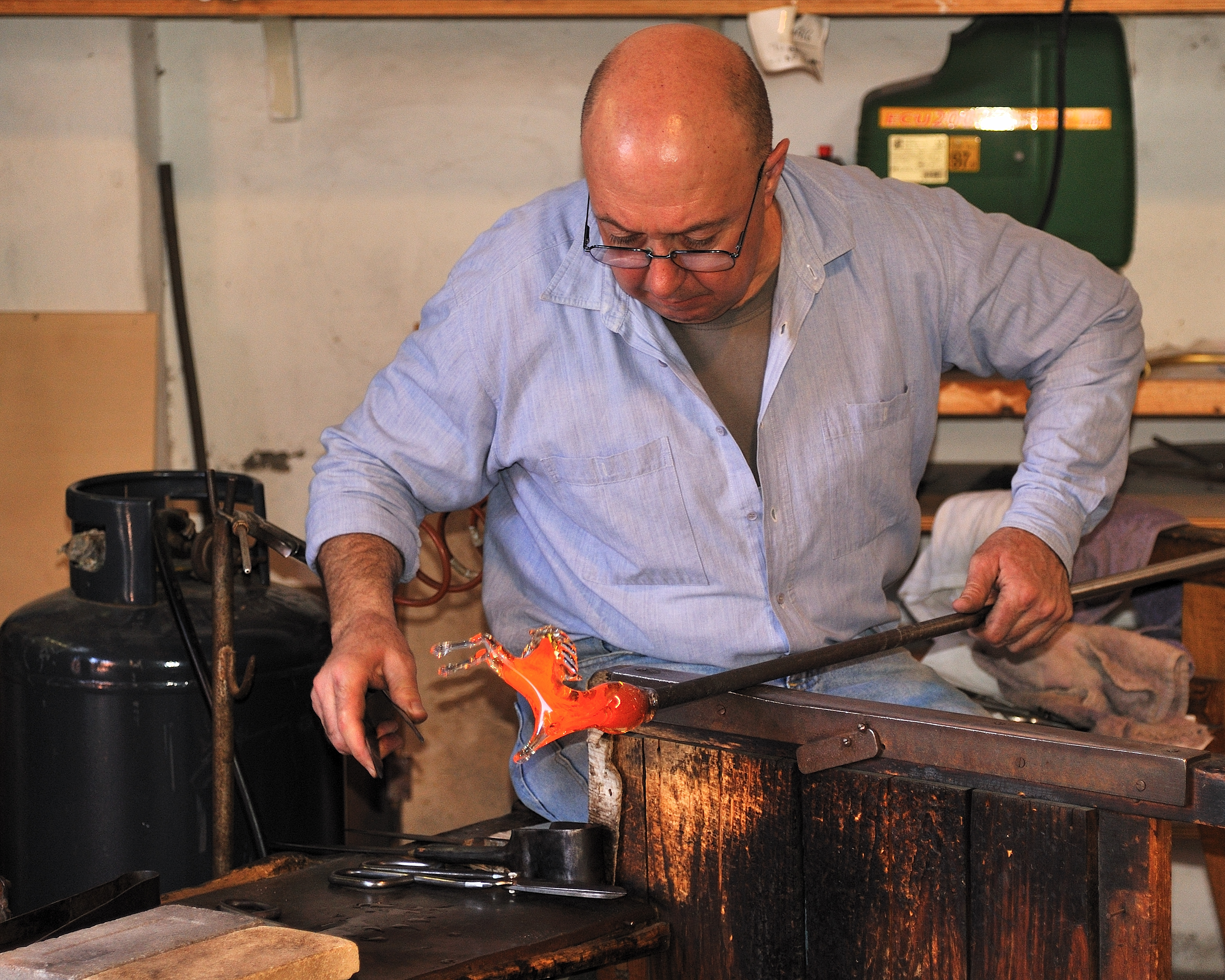 A worker at a Murano glass factory demonstrates his technique.